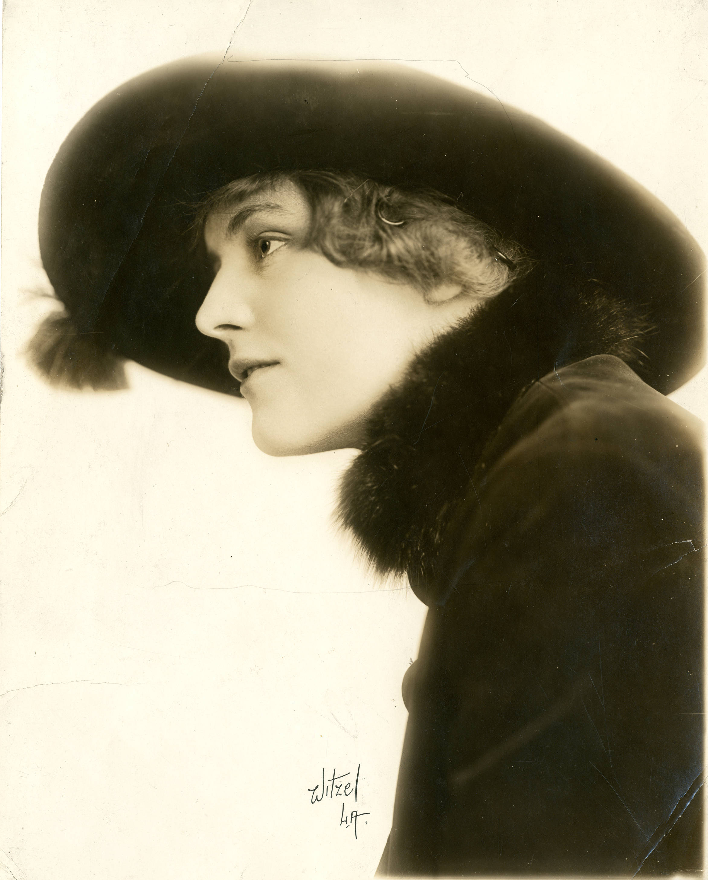 Anita King, film actress Subjects: actresses